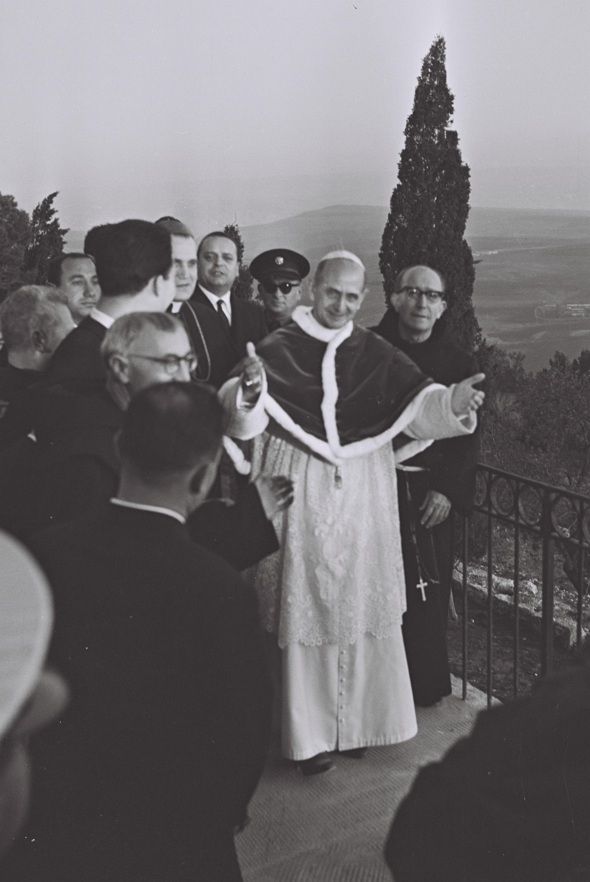 POPE PAULUS VI ON THE BALCONY OF THE FRANCISCAN MONASTERY ON MOUNT TABOR OVERLOOKING THE VALLEY OF JEZREEL AND THE GILBOA MOUNTAINS.